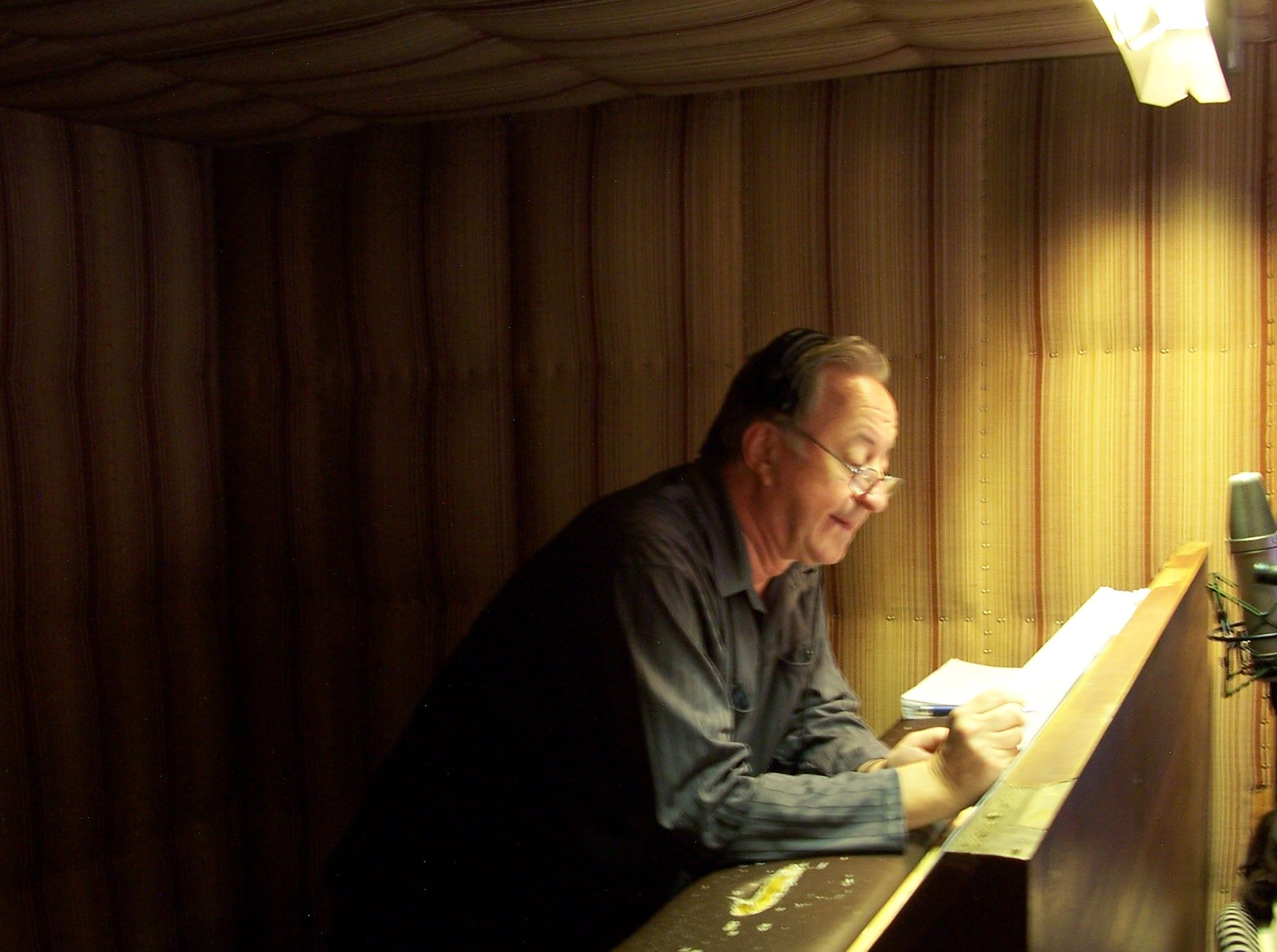 Czech actor Jiří Lábus in dub studio.